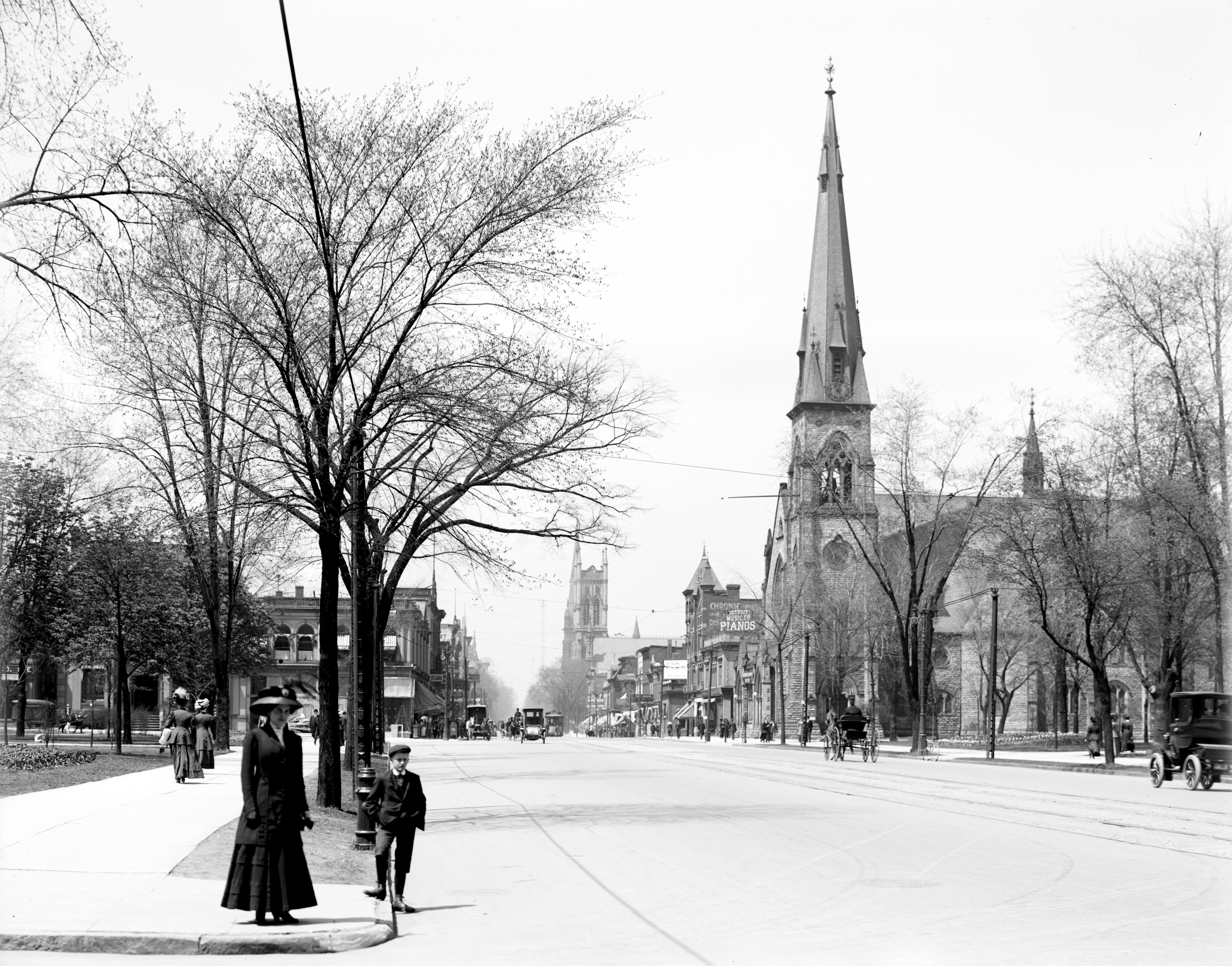 Woodward Avenue through Grand Circus Park in downtown Detroit, Michigan (between 1905 and 1915); in the middle distance on the right is the Central United Methodist Church.